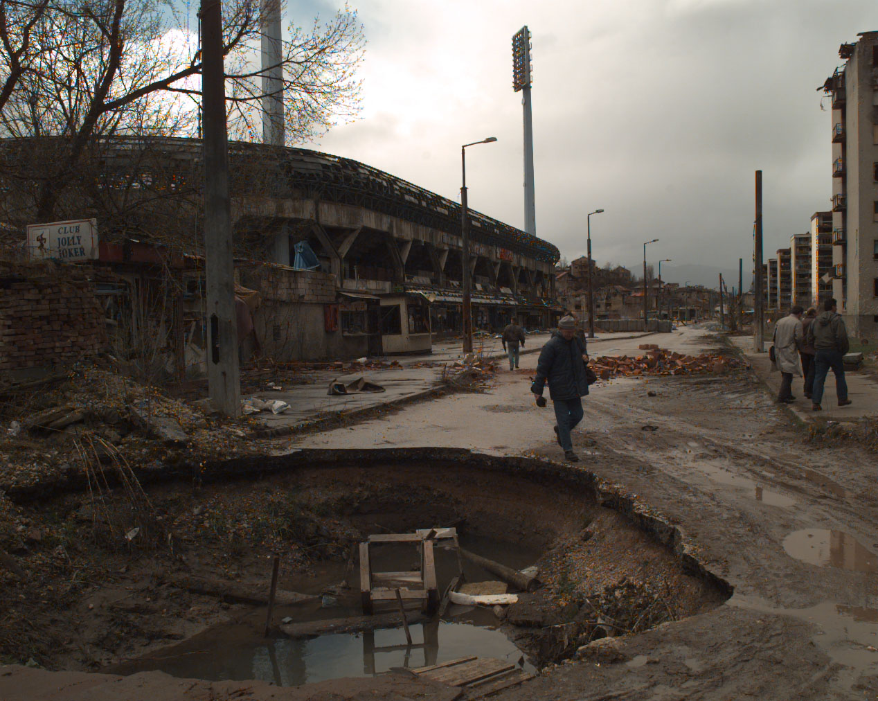 960403-A-2407B-008 Photo of a suburb in Sarajevo Bosnia after the fighting that took place between the Serbians and the Muslims,taken by Specialist Nadine Byrnside from the 55th Signal Company Combat Camera team, in a place called Grbavica on 3 April 1996.